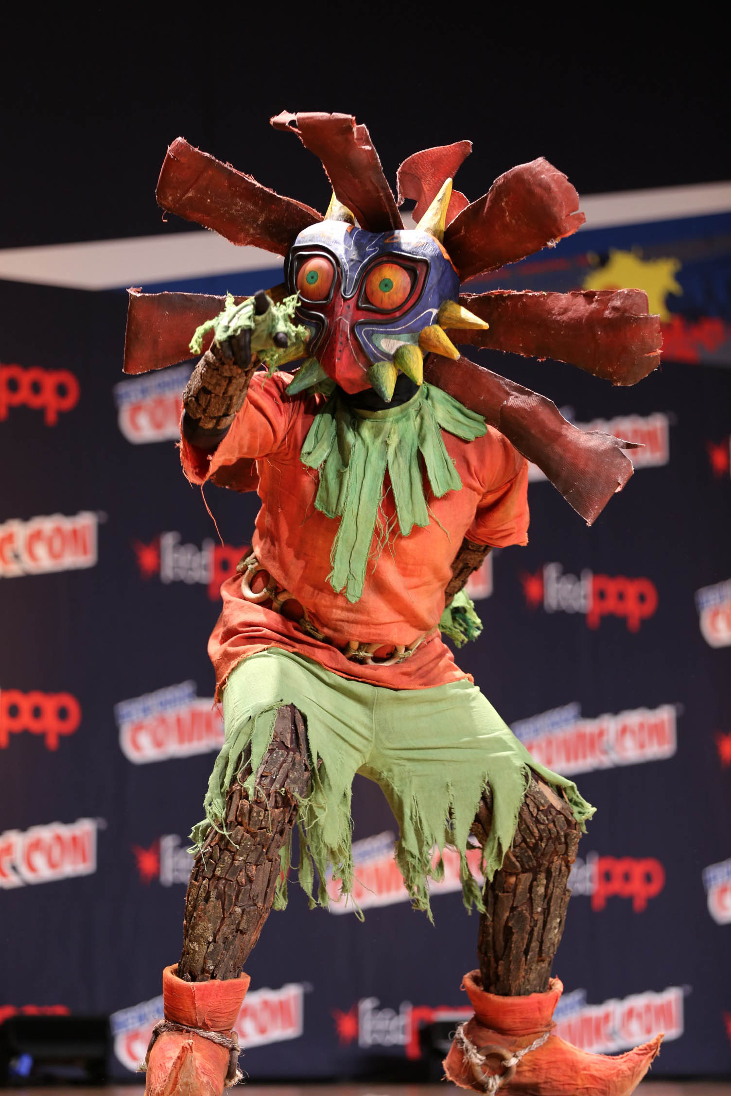 Cosplay at the 2014 New York Comic Con.